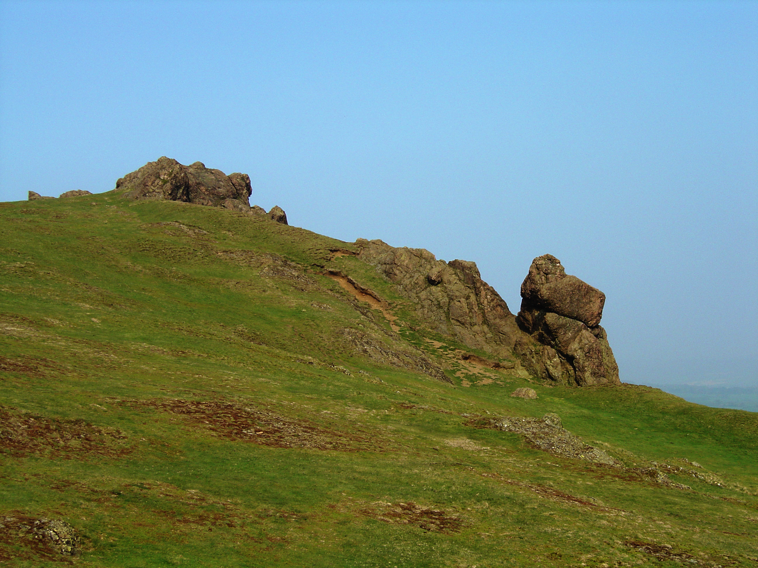 Caer Caradoc, near Church Stretton in Shropshire